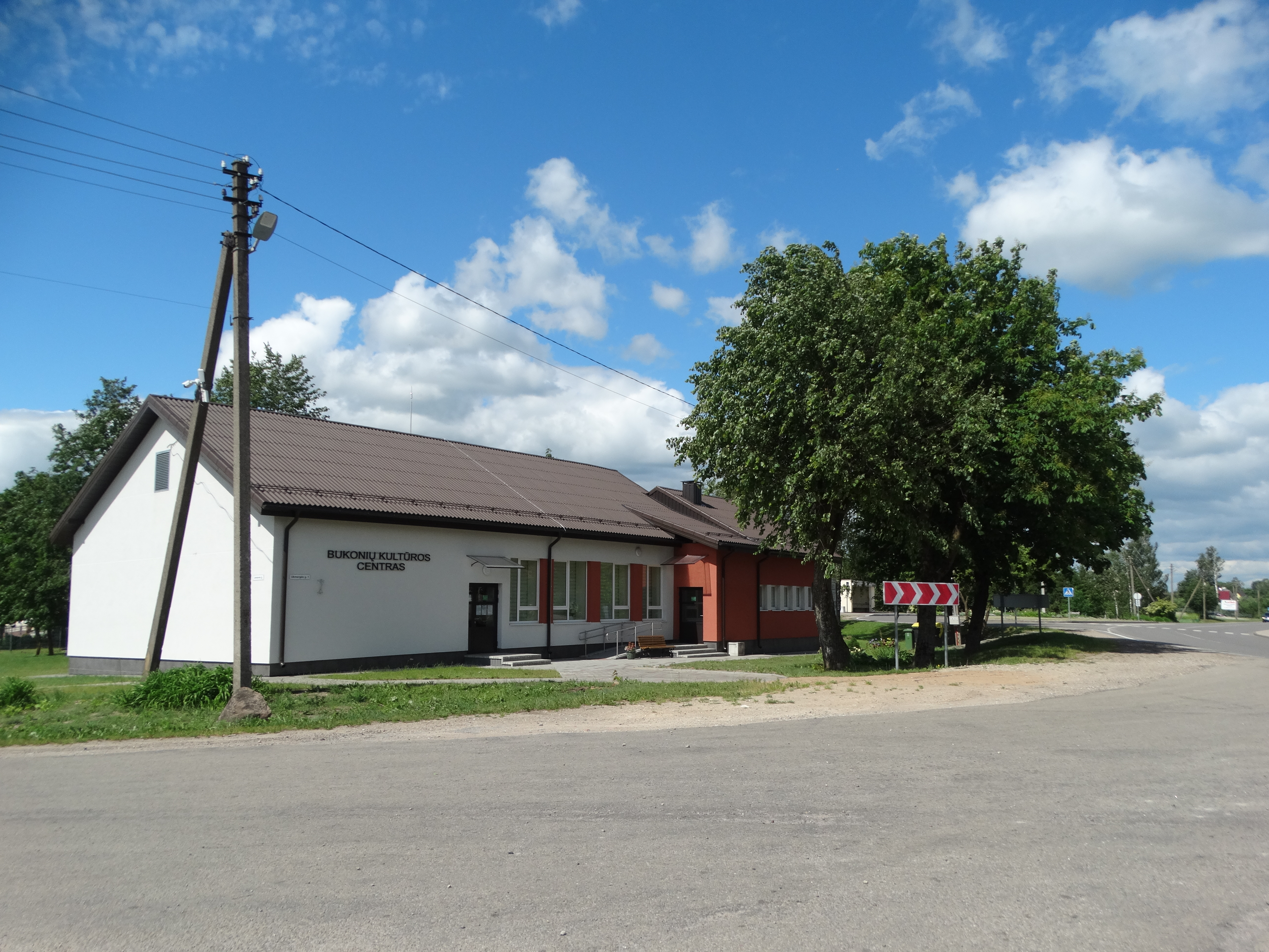 Bukonys, centre of culture, Jonava district, Lithuania